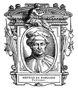 Illustratio from "Le Vite" by Giorgio Vasari, edition of 1568. For the artist portrayed see filename